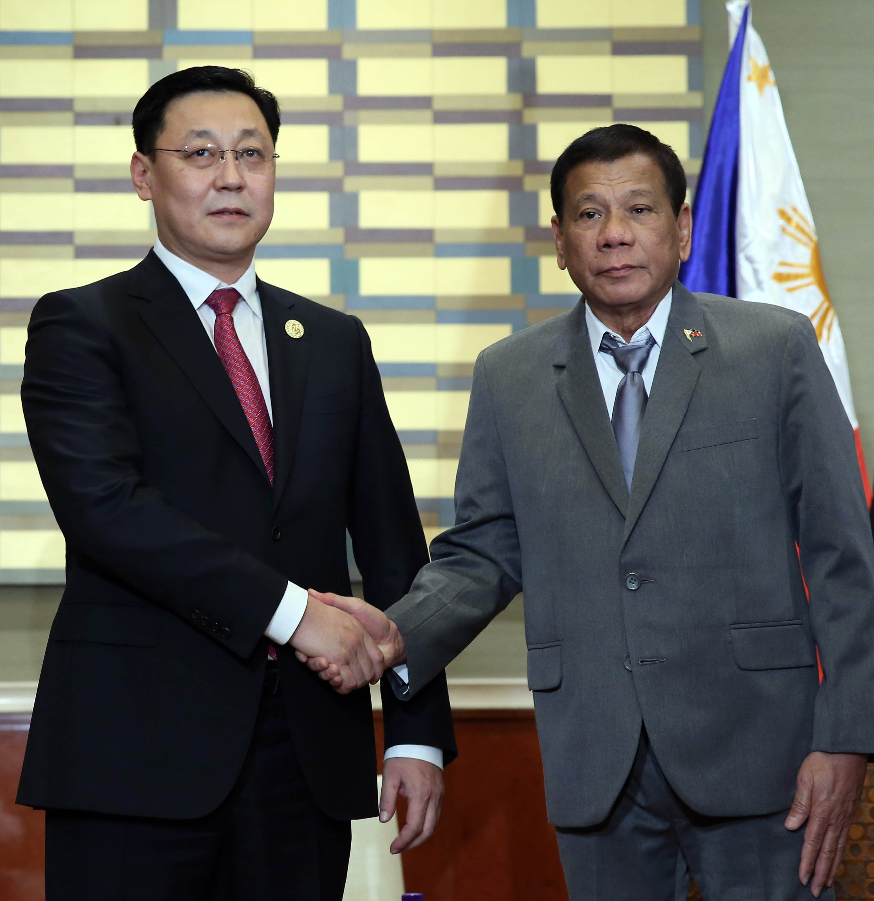 President Rodrigo Roa Duterte holds bilateral talks with Mongolian Prime Minister Jargatulgyn Erdenebat to strengthen economic ties and people-to-people cooperation at the Grand Hyatt Hotel in Beijing, China on May 14, 2017. (PRESIDENTIAL PHOTO)